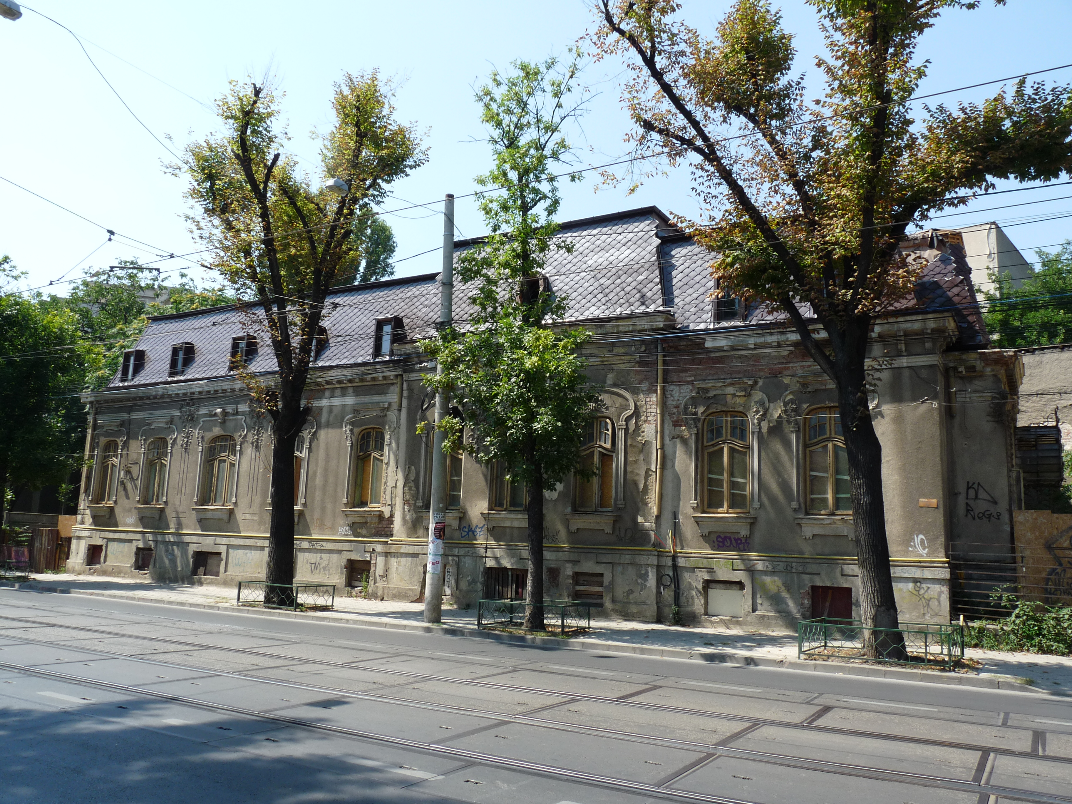 Historic building in Bucharest, Romania, on Regina Maria boulevard 86-88